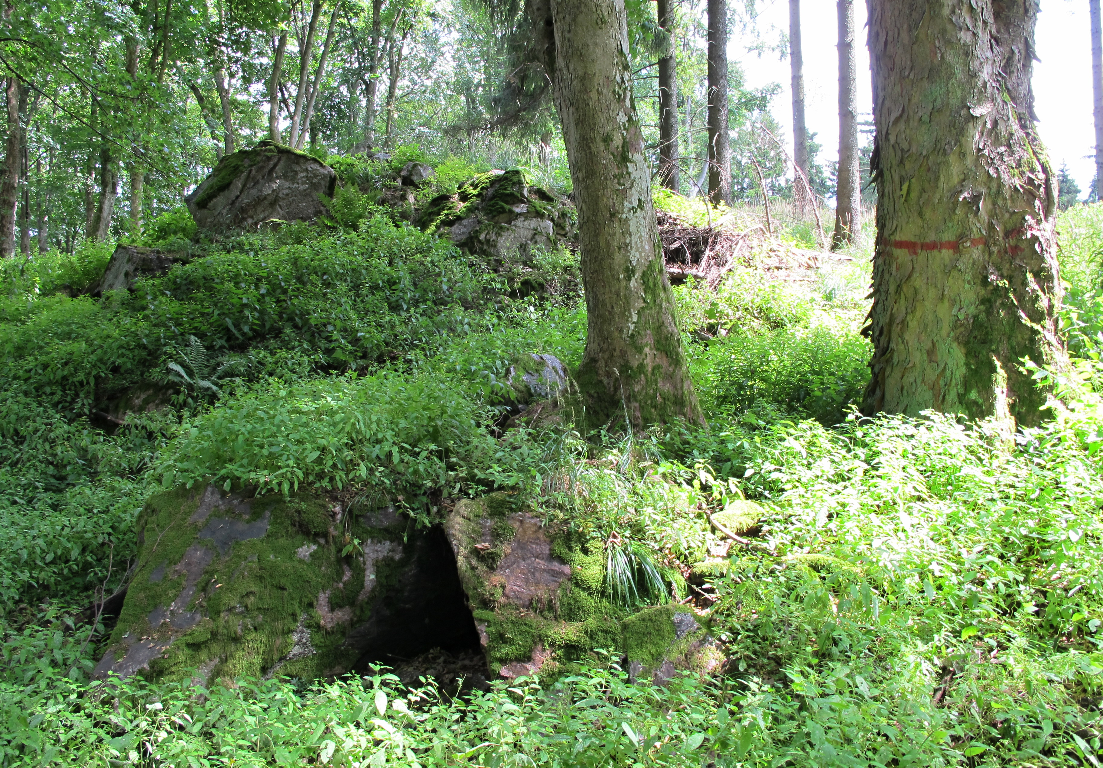 Natural monument Třemešný vrch, near Rožmitál pod Třemšínem in Příbram District (Czech Republic)